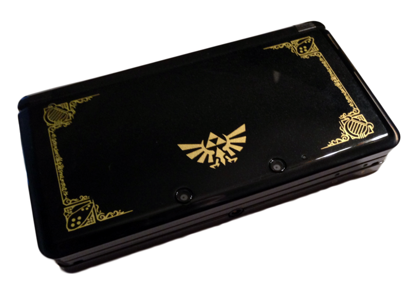 Limited Edition Nintendo 3DS with Zelda design.